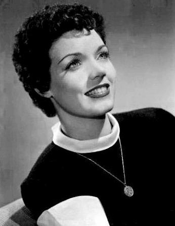 Photo of singer-actress Denise Lor.